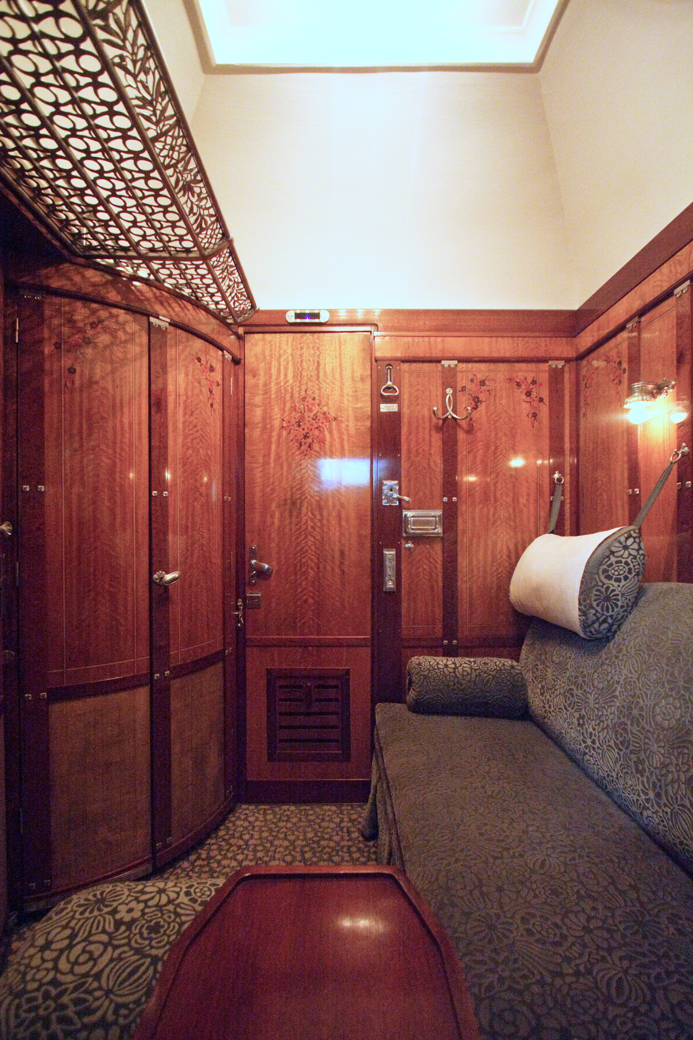 a sleeping car LX 3532 by CIWL at the Cité du Train de Mulhouse(Mulhouse, France)